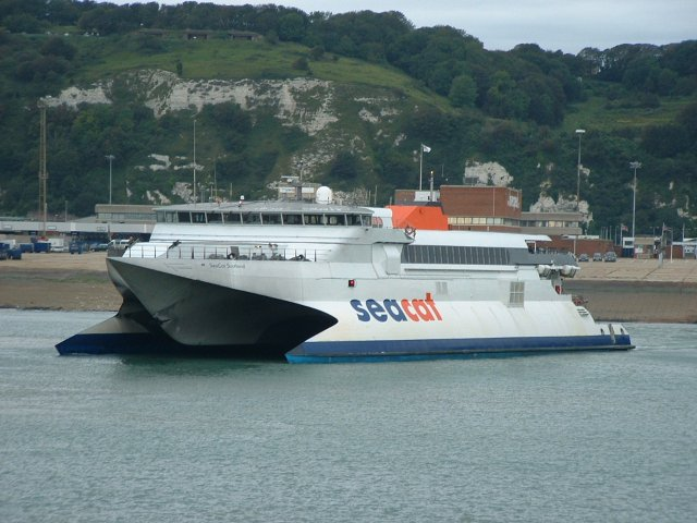 SeaCat Scotland in Dover Harbour, 2 years after leaving Belfast for the final time. C. 2004.